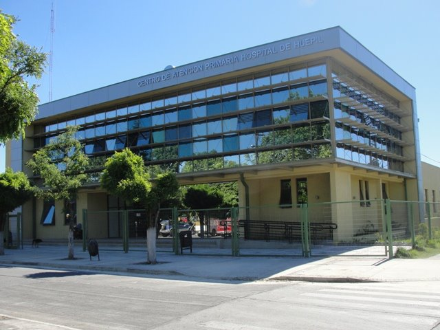 Panoramicahuepil